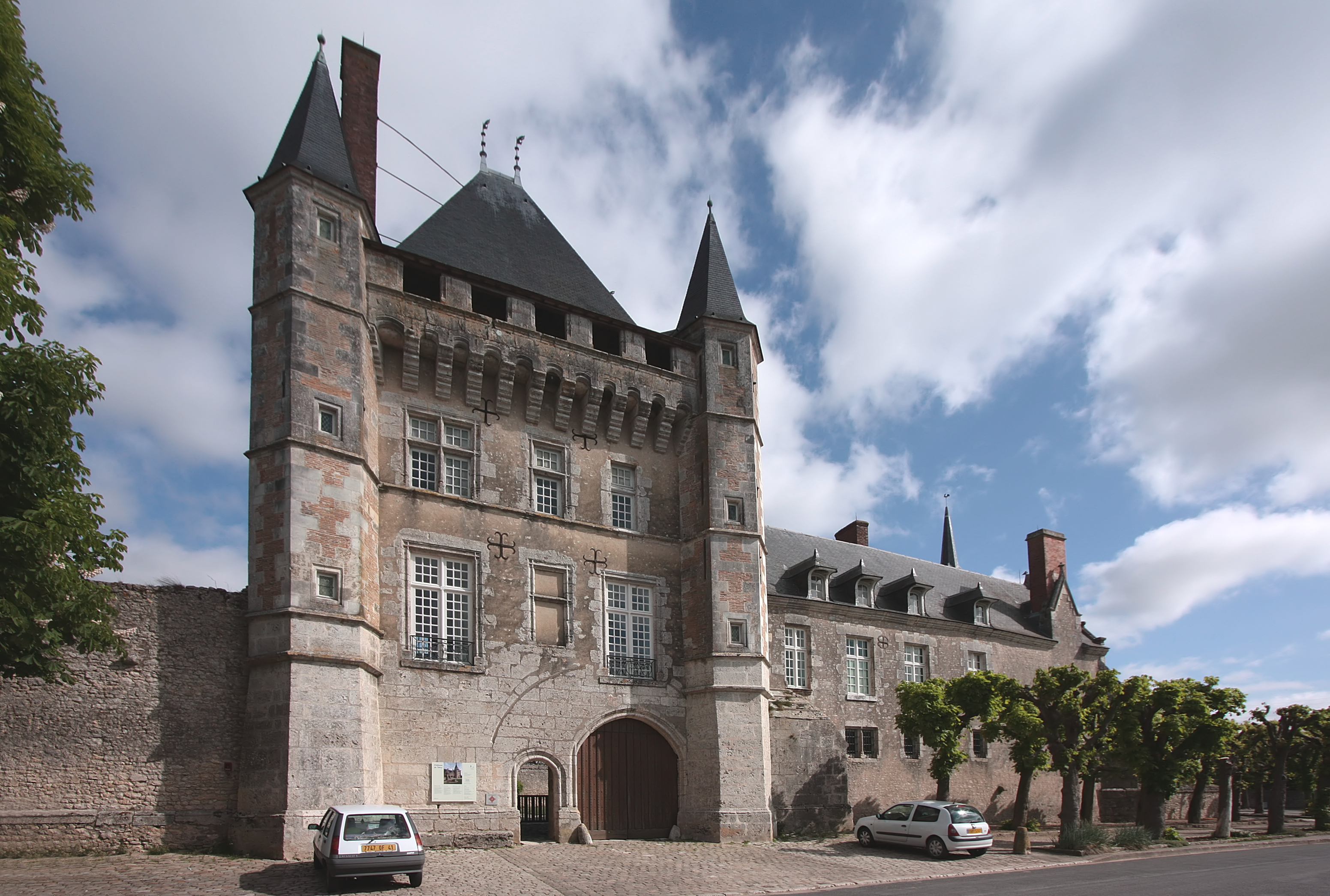 Street front of the Castle of Talcy, located in the departement Loir et Cher of France